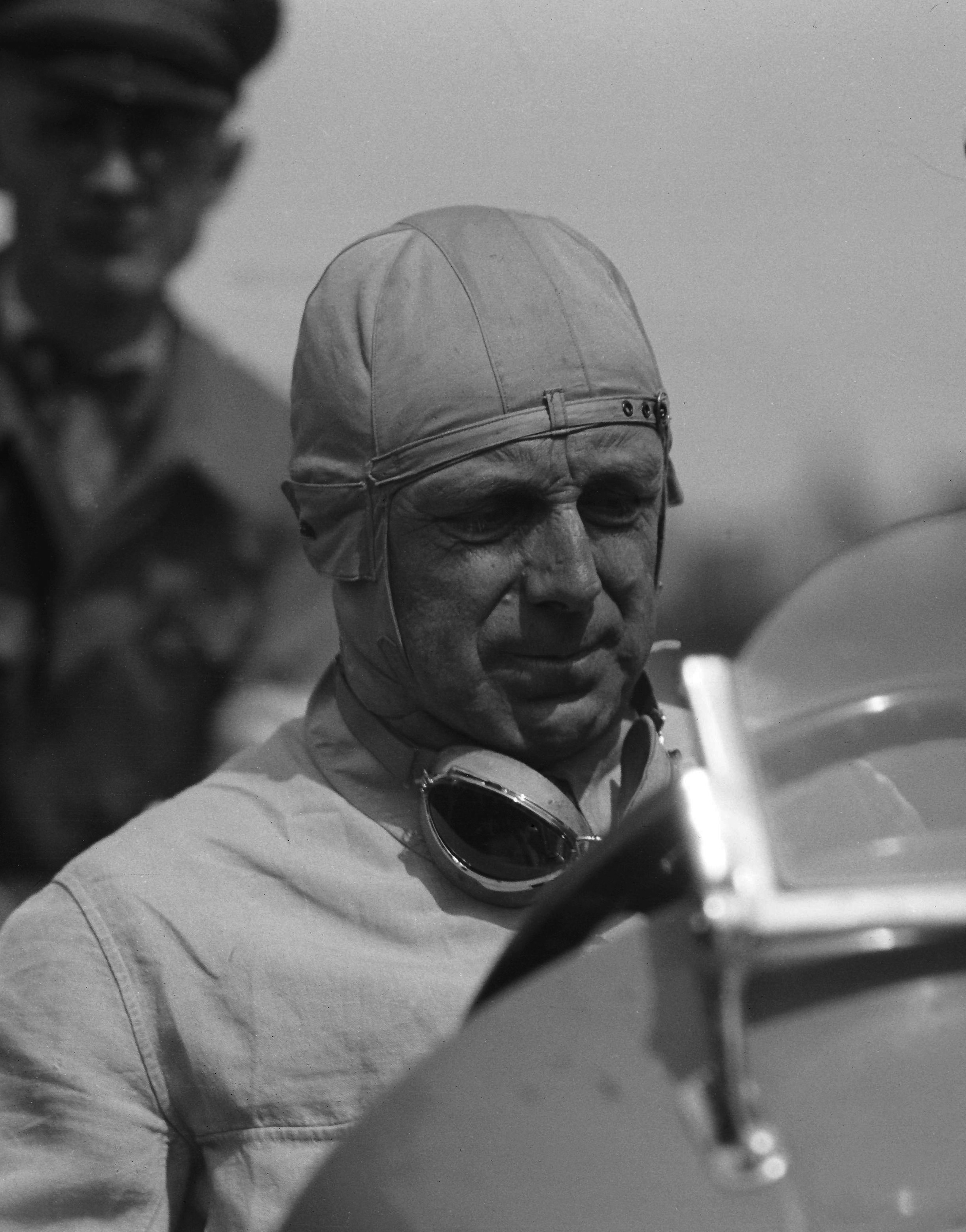 English racing driver and former Member of Parliament, Francis Curzon, 5th Earl Howe, sitting in his car prior to the 1934 Avusrennen, Berlin, Germany.